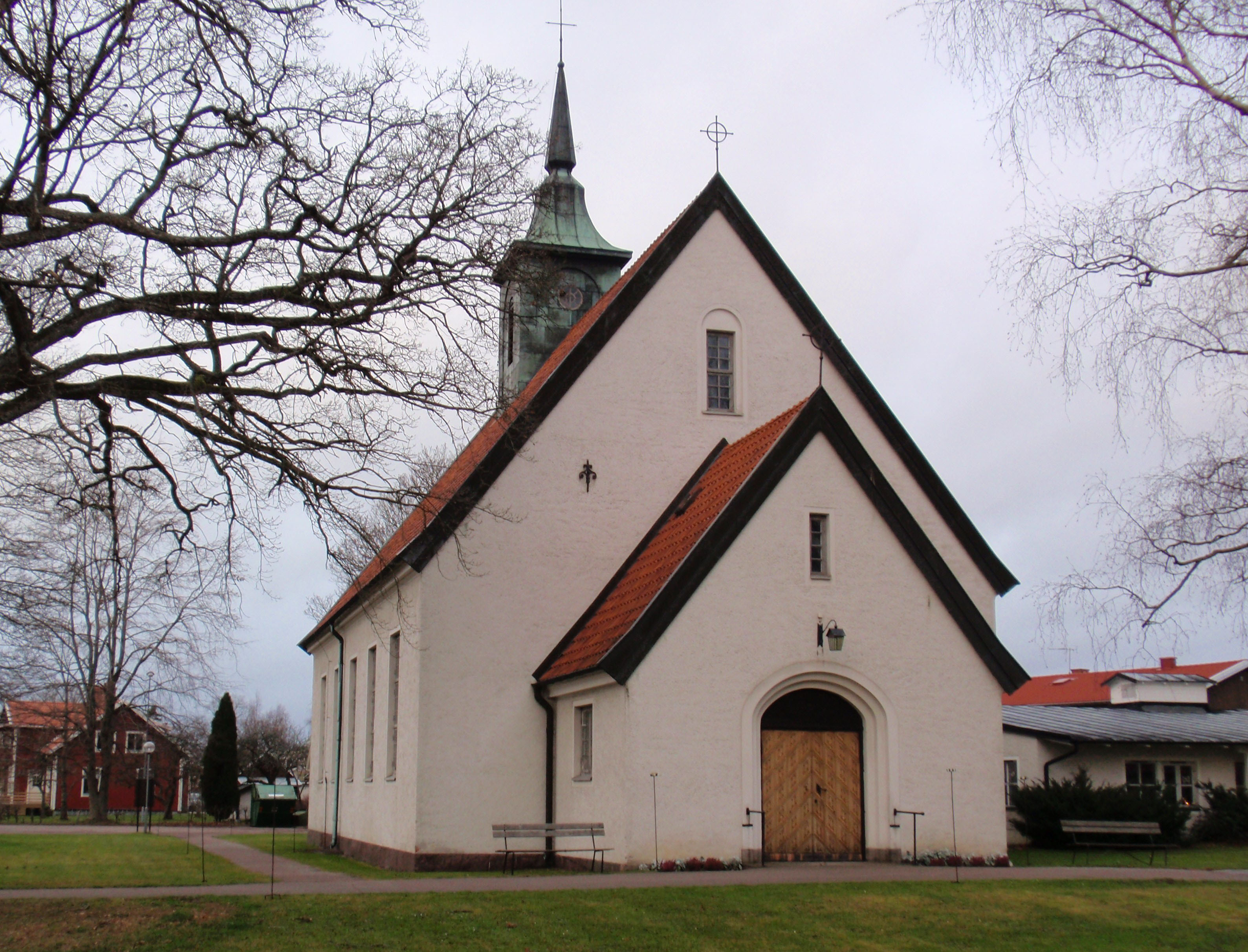 Sankt Olof Church. Exterior.